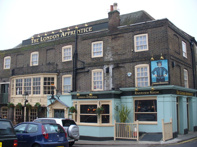 The London Apprentice One of the capital's oldest riverside pubs. It has been used by monarchs - including Henry VIII, Charles I and II. It gets its name from being frequented by successful apprentices returning from the Guilds in London.